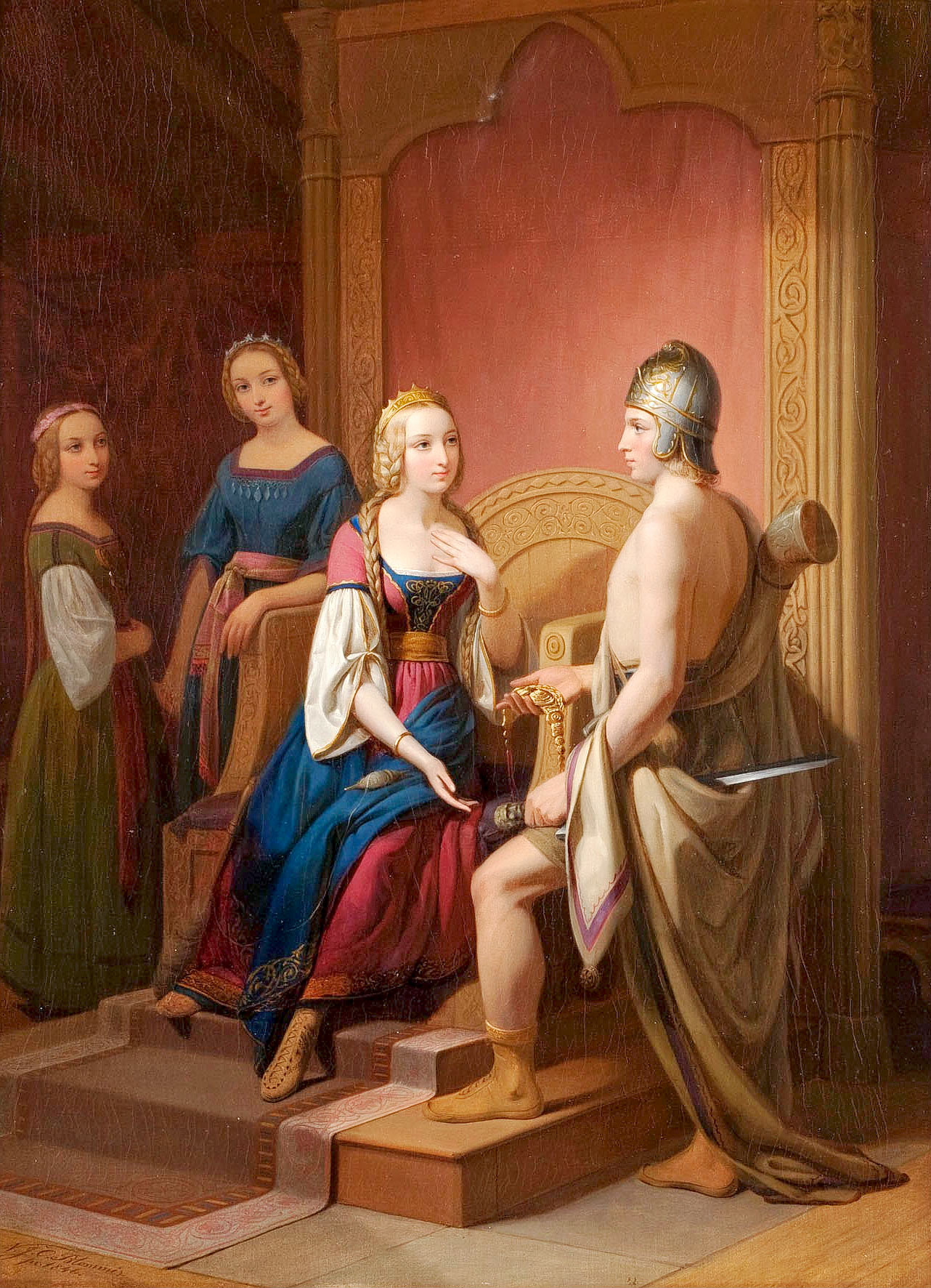 Heimdall returns the necklace Bryfing to Freya